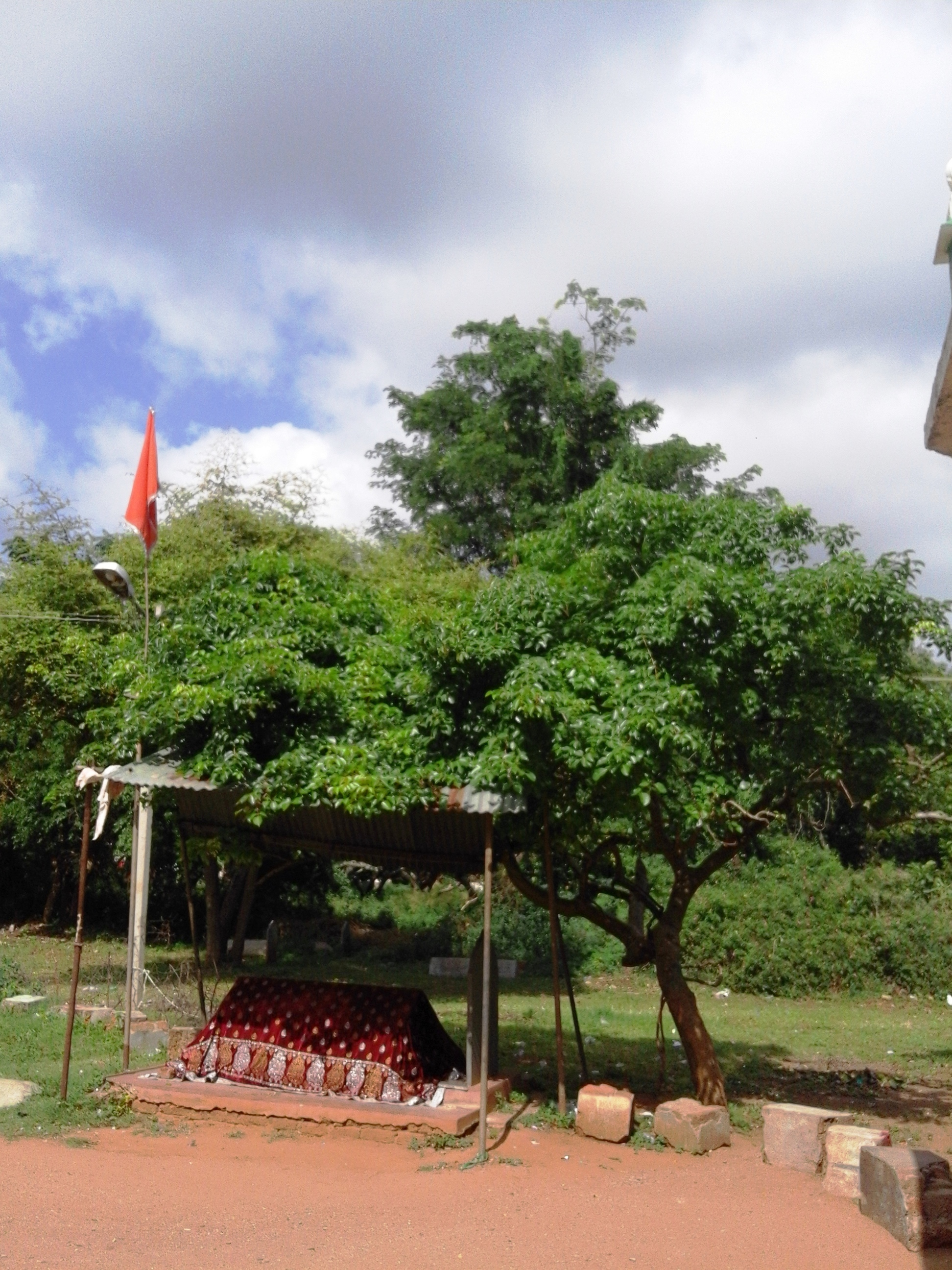 Sathyagala Handpost village, Kollegal taluk, Chamarajanagar district, Mysore.